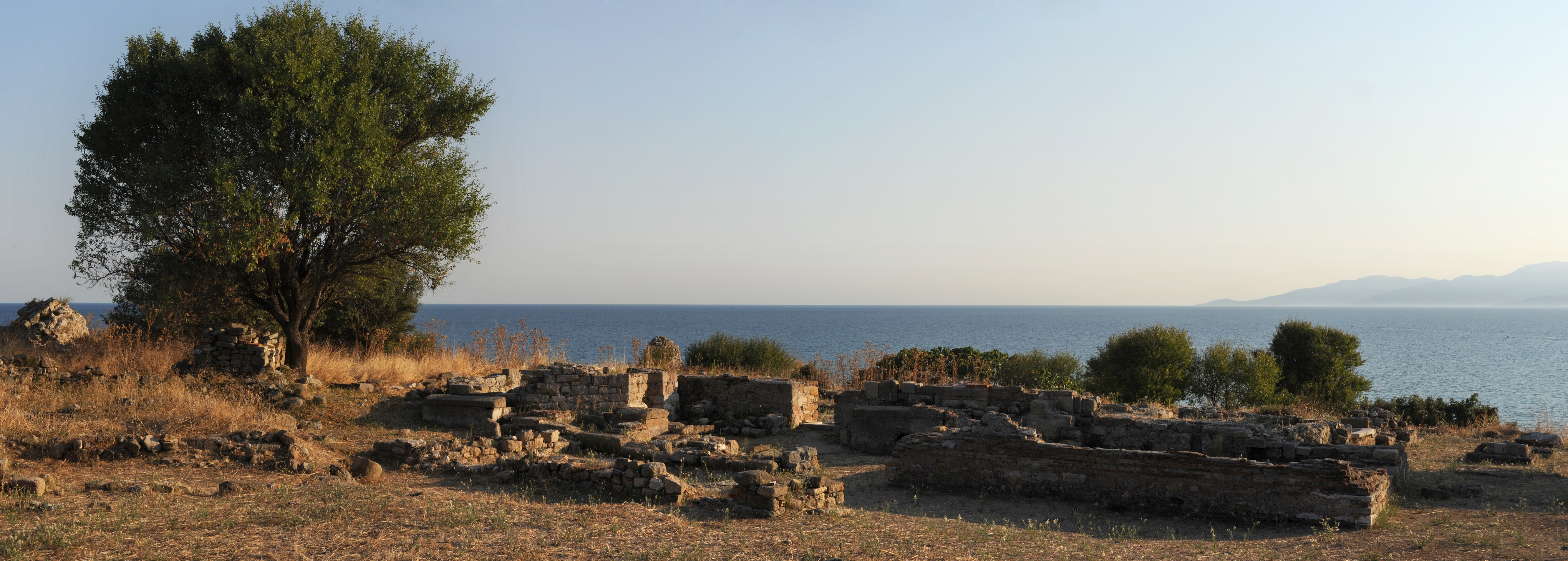 Polystylon Abdera Xanthi Thrace Greece.